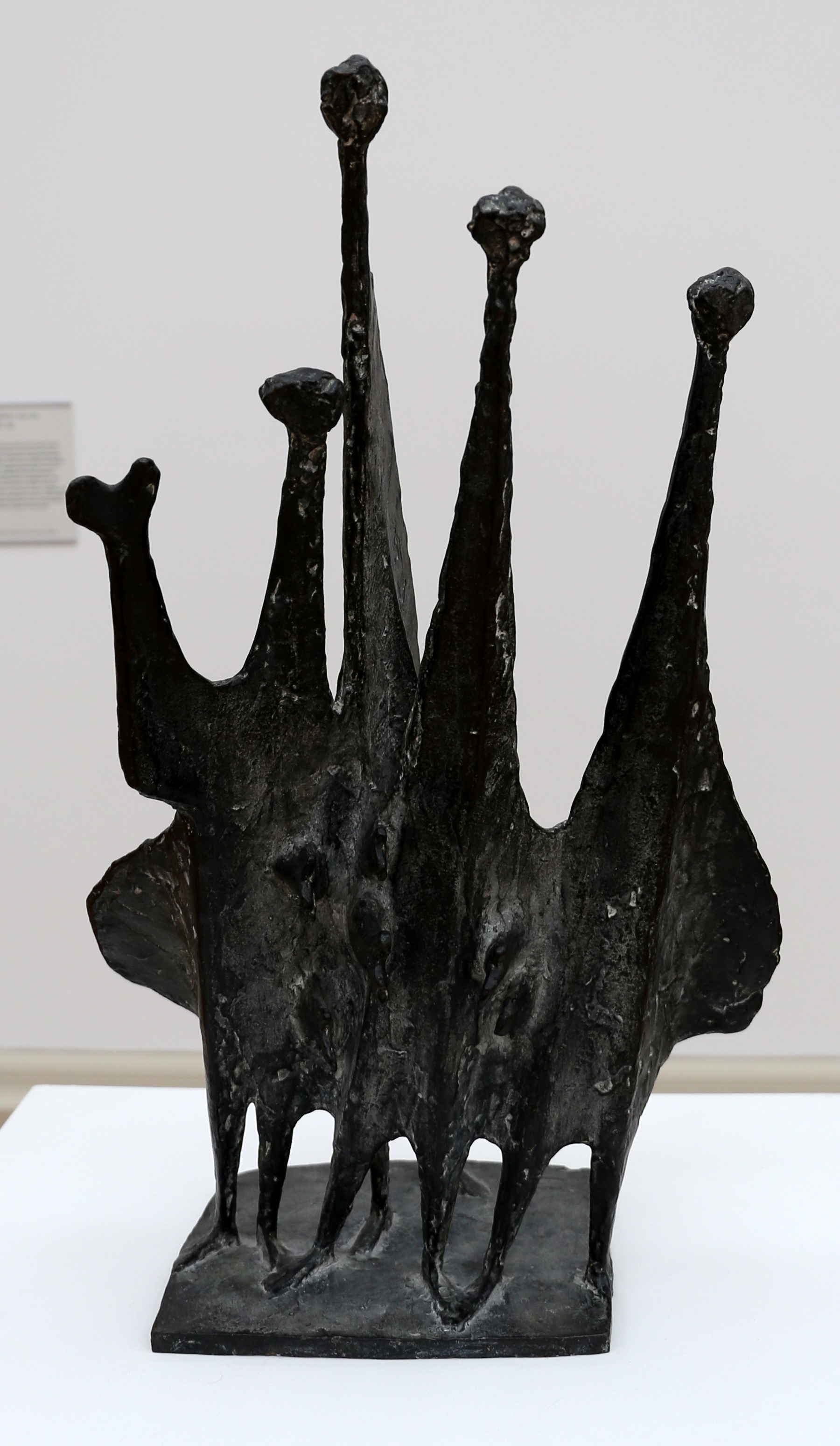 Sculptures in Tate Britain